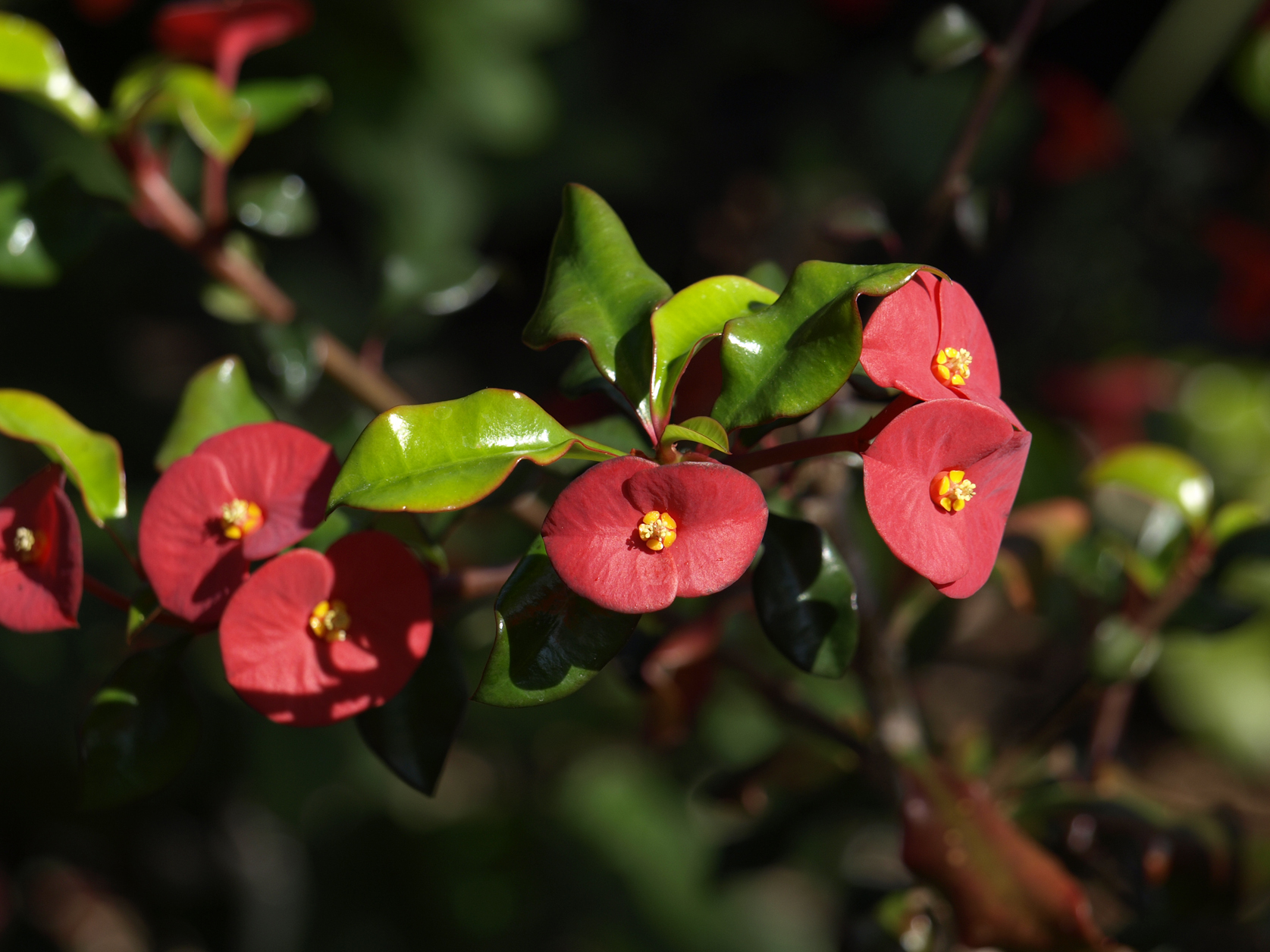 South Miami, Florida, USA.